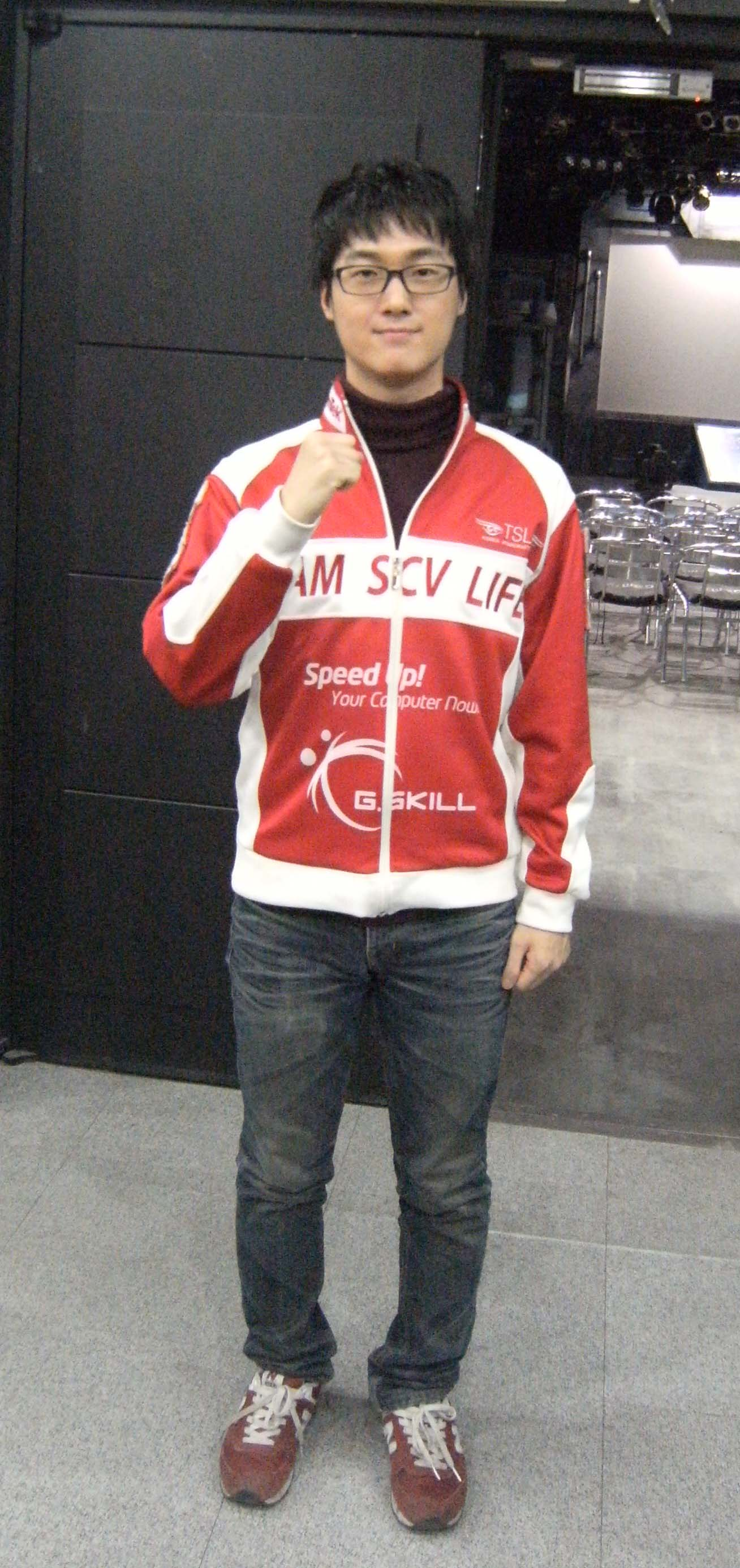 StarCraft II player "Choi Sung Hoon" (nickname: "Polt")